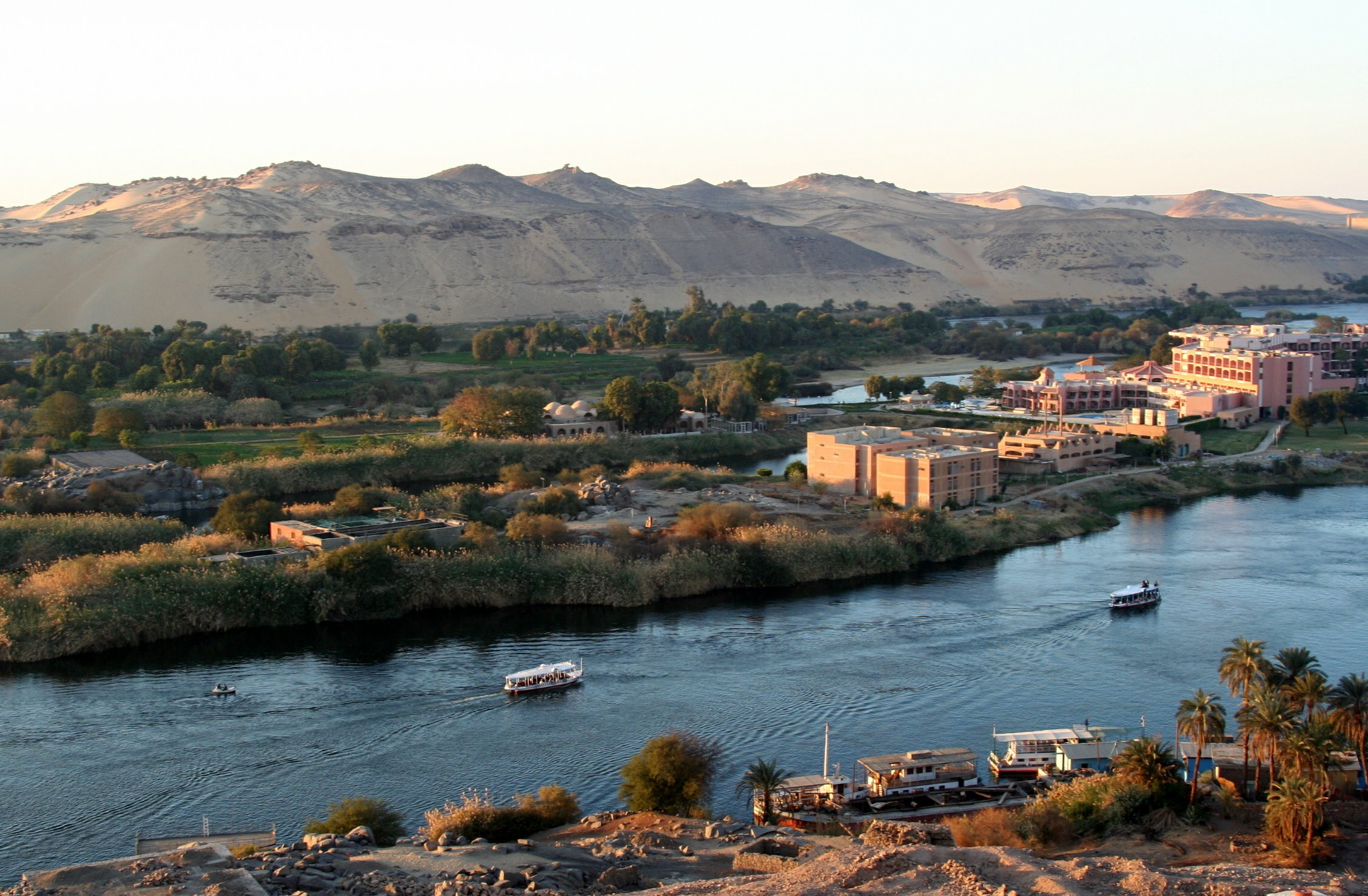 River Nile at Aswan